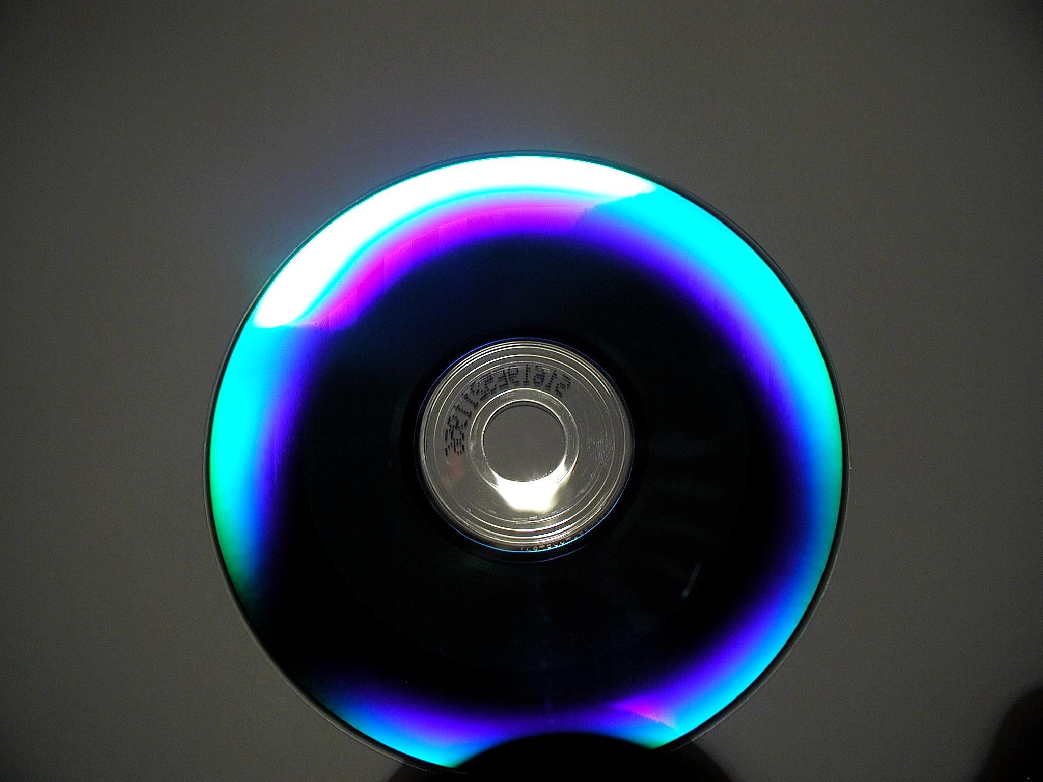 Image title: DVD blue ray disk Image from Public domain images website